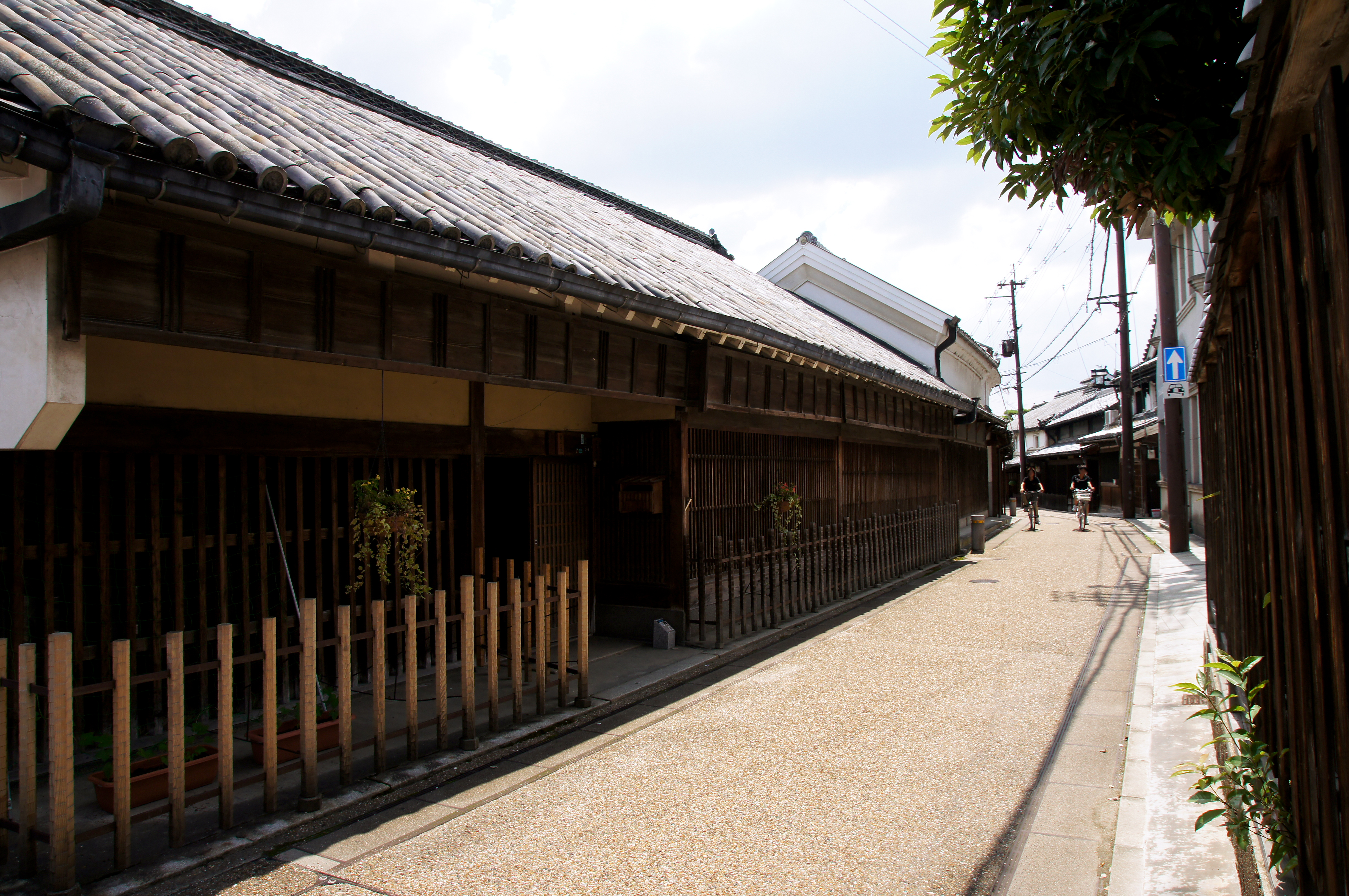 Gojo Shinmachi designated as Important Preservation Districts for Groups of Historic Buildings in Japan. It is located in Gojo, Nara prefecture, Japan.